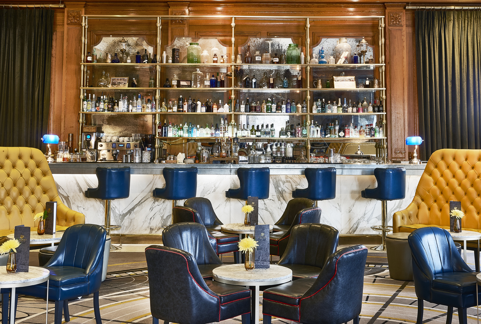 Gillrays Bar